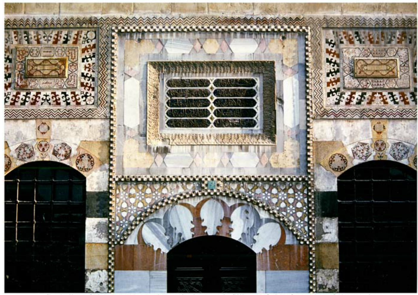 details of the stonework and plaster infilling of the facade of the qa'a